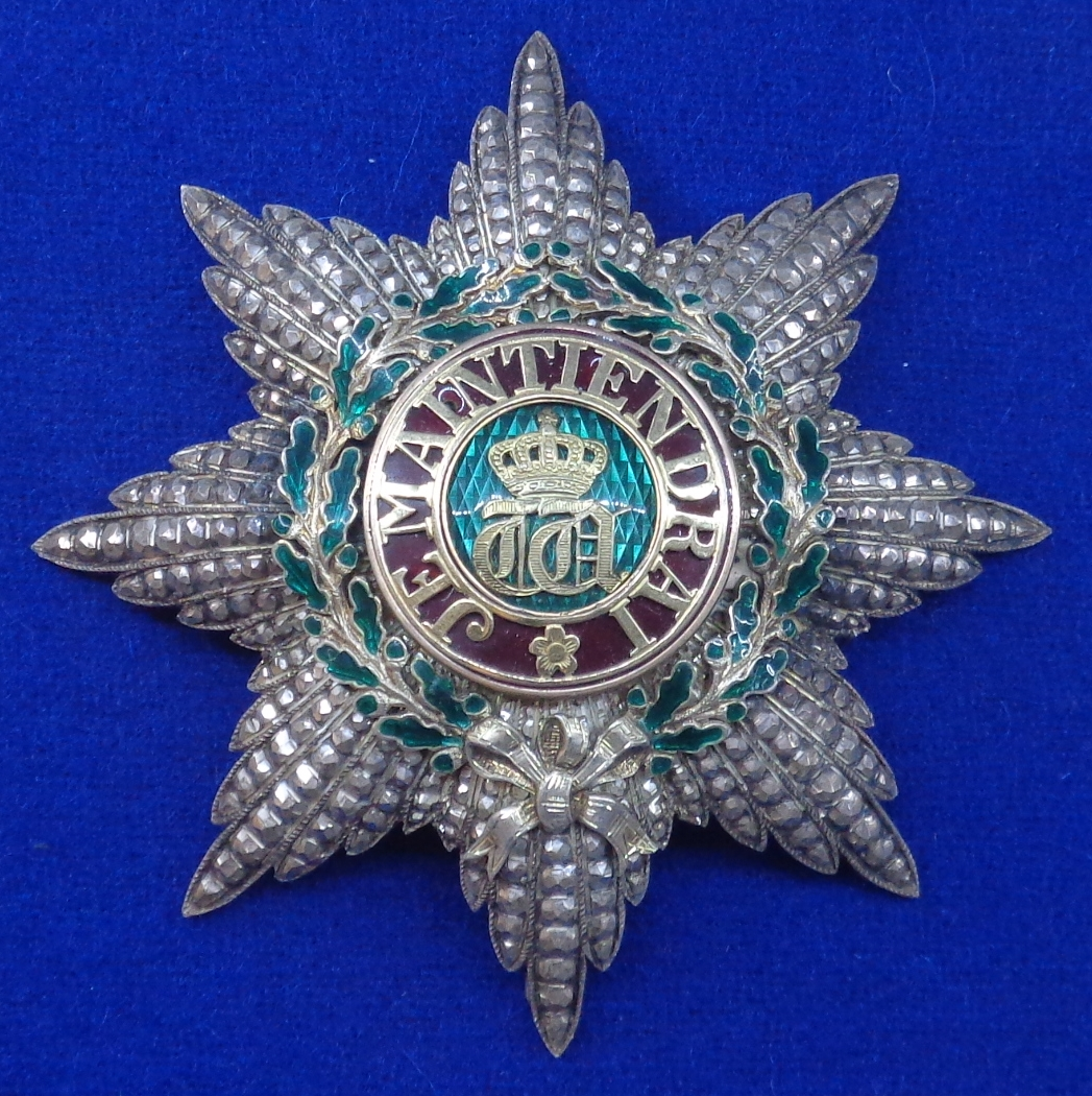 Order of the Oak Crown, star of Grand Cross, c.1970. Luxembourg. The exhibition of the Tallinn Museum of Orders of Knighthood, Estonia.